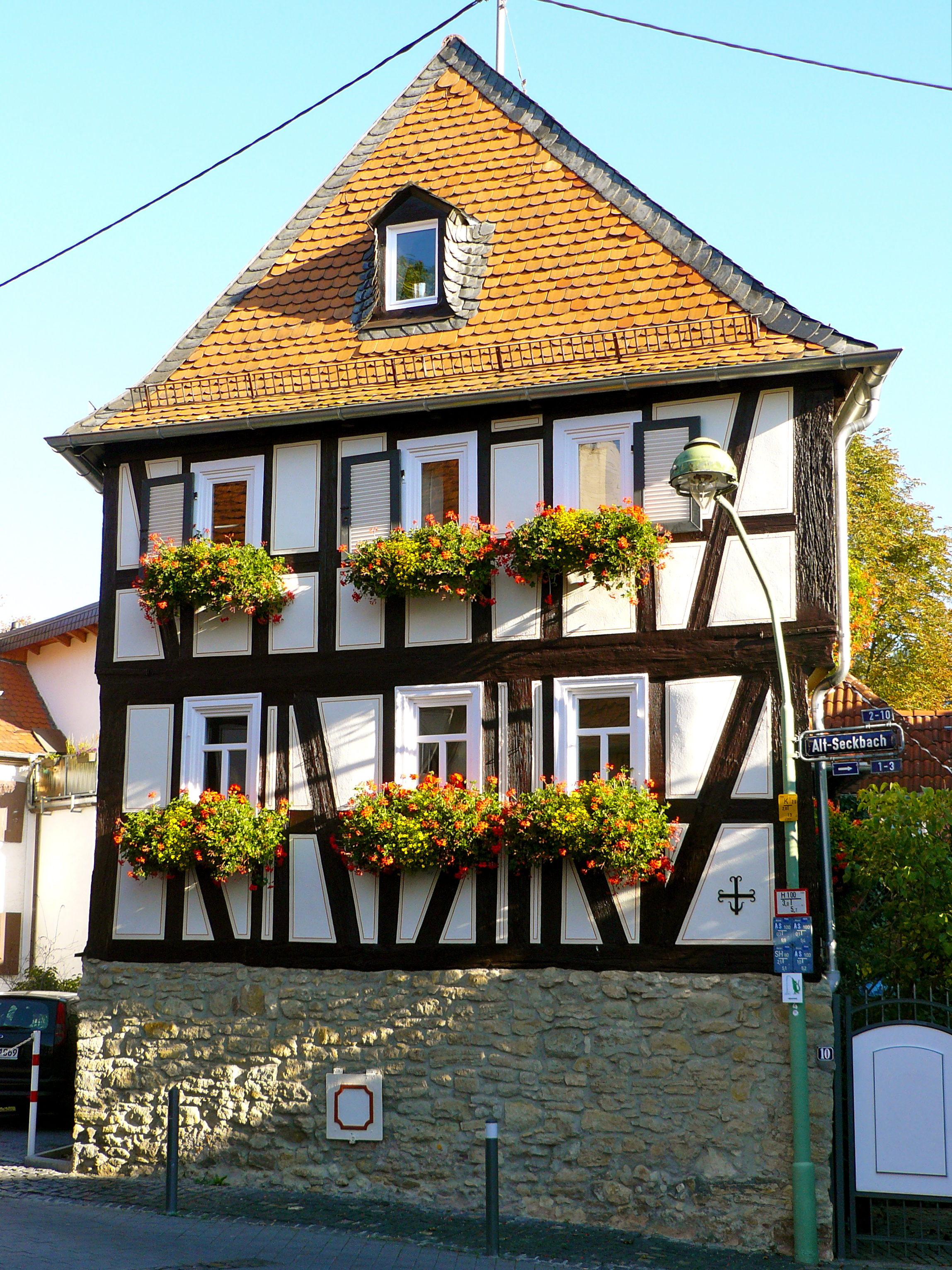 Half-timbered home in 10 Hintergasse, Seckbach, Frankfurt, Hesse, Germany